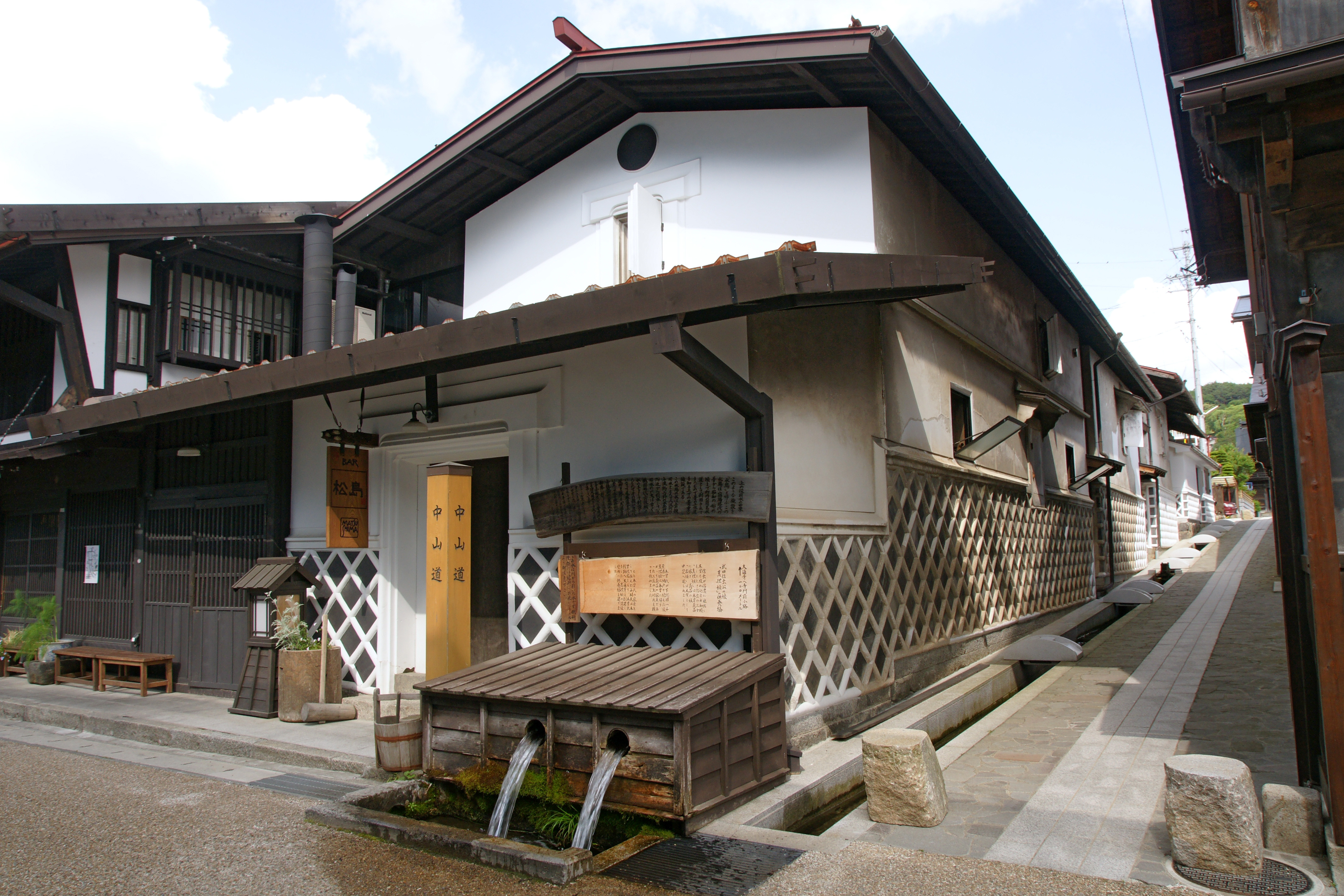 Nakasendō at Kiso, Nagano prefecture, Japan